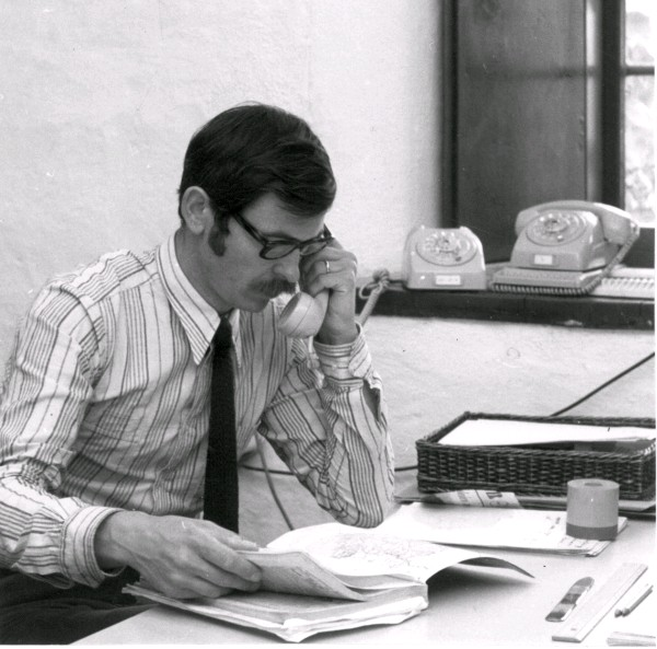 Bo Wingren 1973